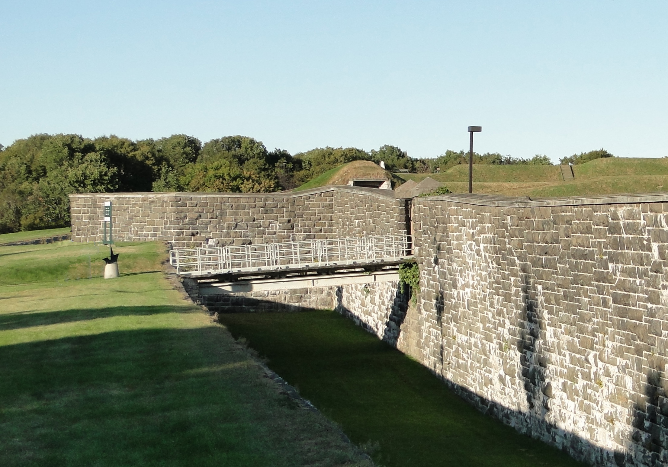 Fort no 1: view of the ditch and the overhead crane, Lévis, province of Quebec, Canada